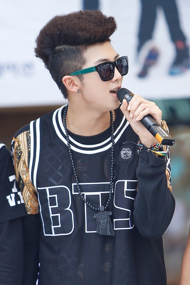 Rap Monster at an fansign in Busan on July 27, 2013.